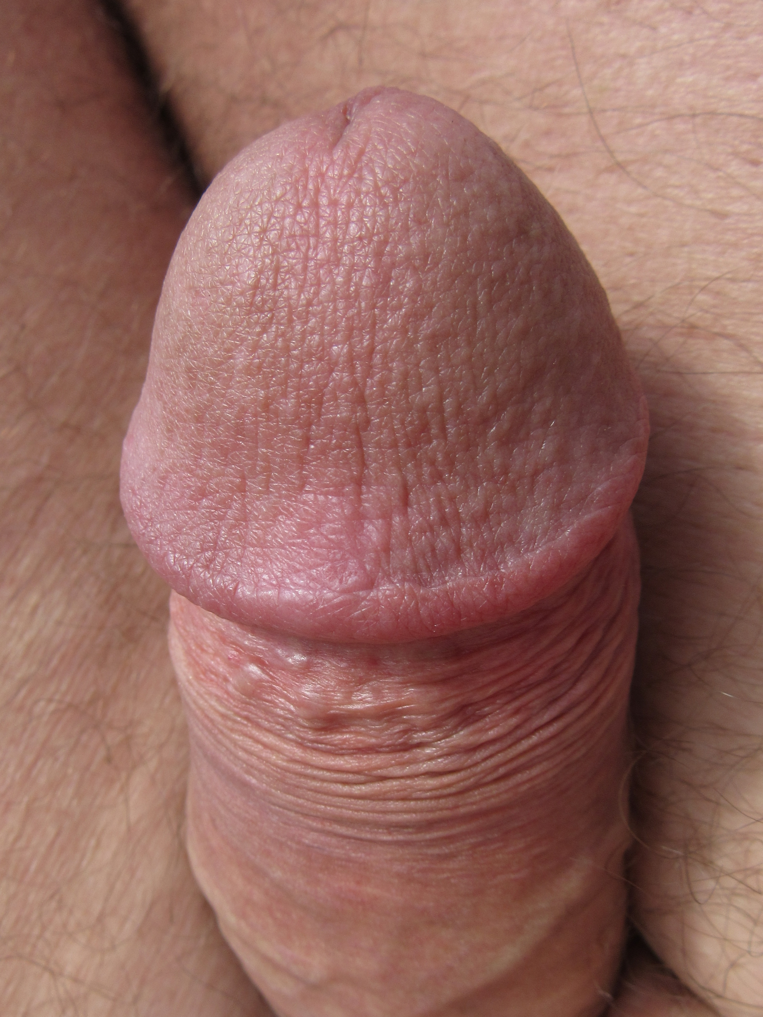 Keratinization of the glans penis as a result of permanent exposure.